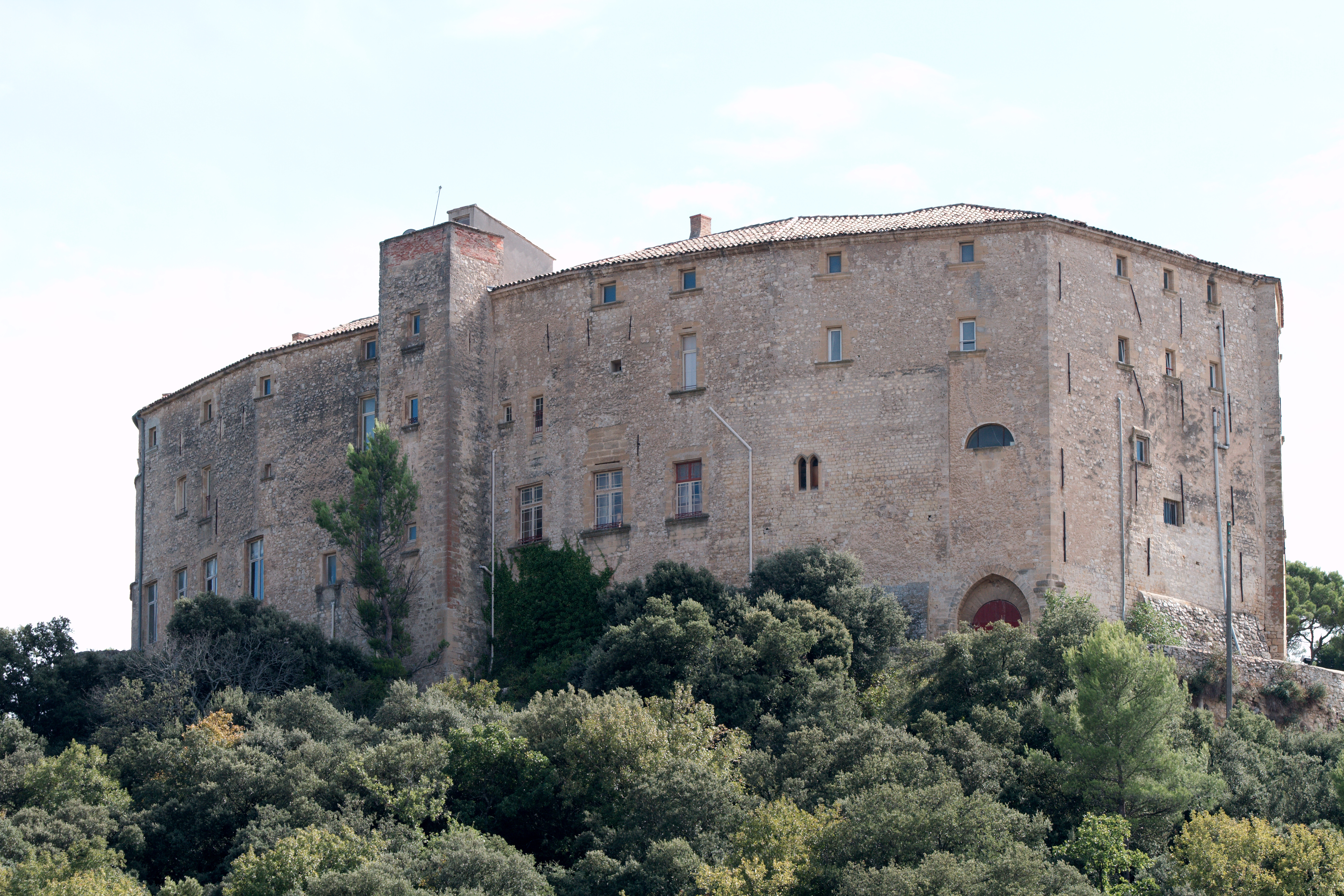 The castle of Meyrargues, Bouches-du-Rhône (France).